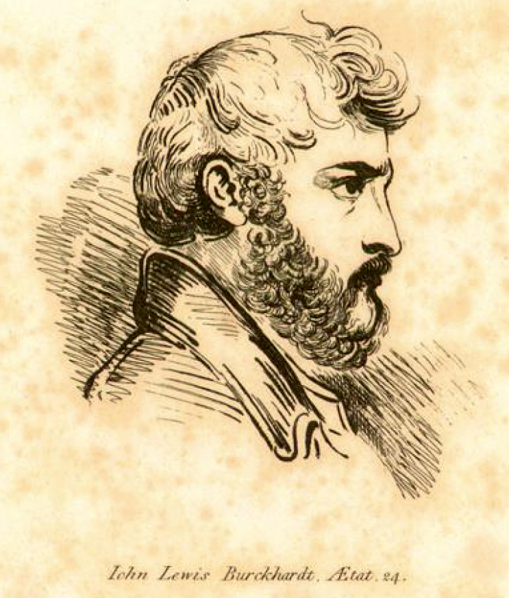 Johann Ludwig Burckhardt at the age of 24, frontispiece of "Travels in Nubia", after a drawing by Joseph Slater